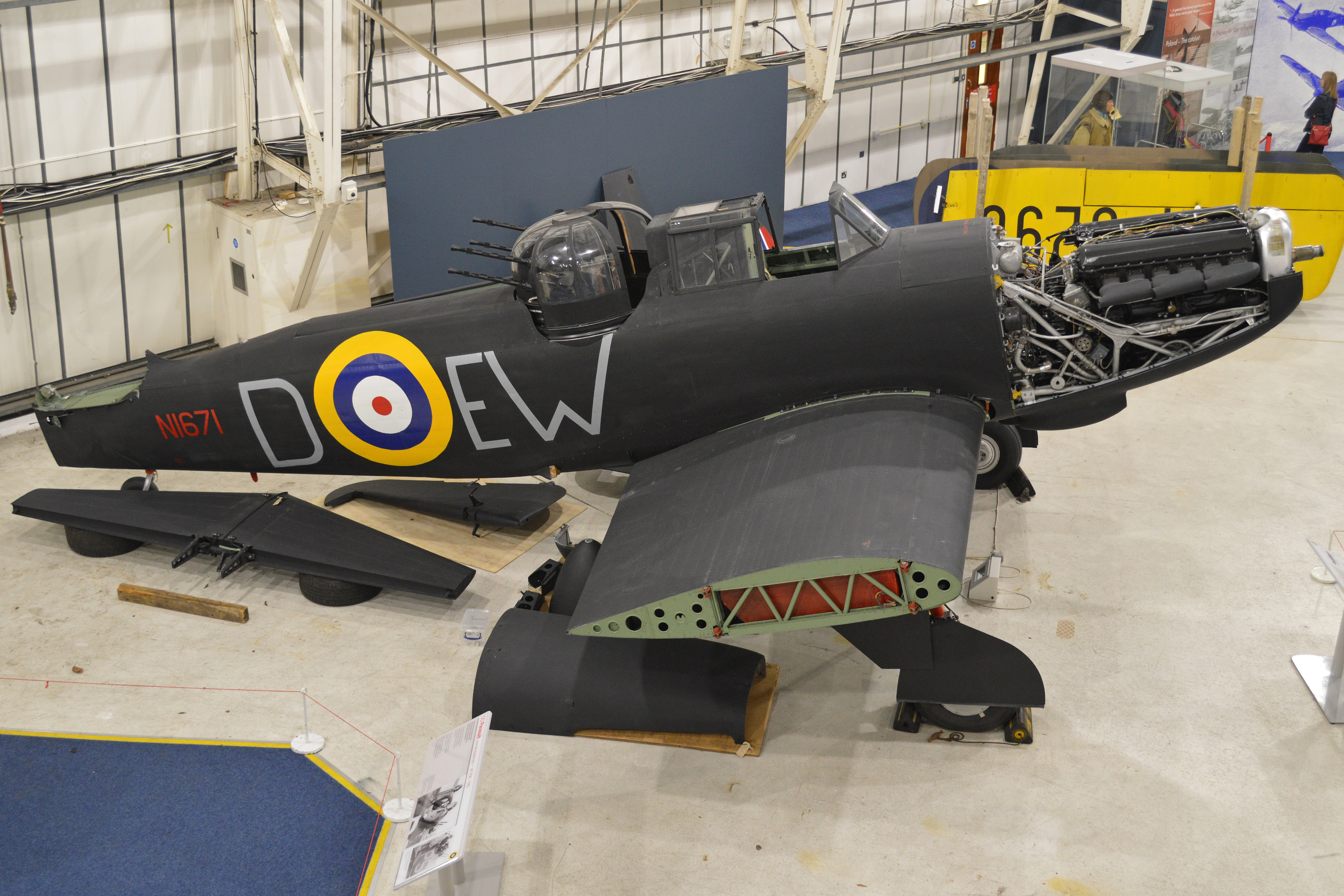 The RAF Museum has chosen to celebrate the 100th Anniversary of the service by dismantling and closing the museum dedicated to its finest hour, the Battle of Britain Museum. Every cloud has a silver lining, however, and during May 2016 the aircraft were in a part dismantled state, allowing for some interesting photos. This is the sole surviving complete Defiant . It was saved by the AHB (Air Historical Branch) in 1944 and stored until 1958 went it began making static appearances. Repainted in to a night-fighter scheme in 1967. Went on display at Hendon when the museum opened in 1972 and moved to the Battle of Britain Hall in 1978 and was there until removed for restoration in 2009. The restoration was carried out to an extremely high standard by MAPS (Medway Aircraft Preservation Society) and the aircraft returned to Hendon in early 2013, now in an accurate and genuine 307 (Polish)sqn colour scheme. This aircraft served with 307sqn as both a day fighter and a night fighter and remained on display in the Battle of Britain Hall until 2016. RAF Museum, Hendon, London, UK. 28th May 2016